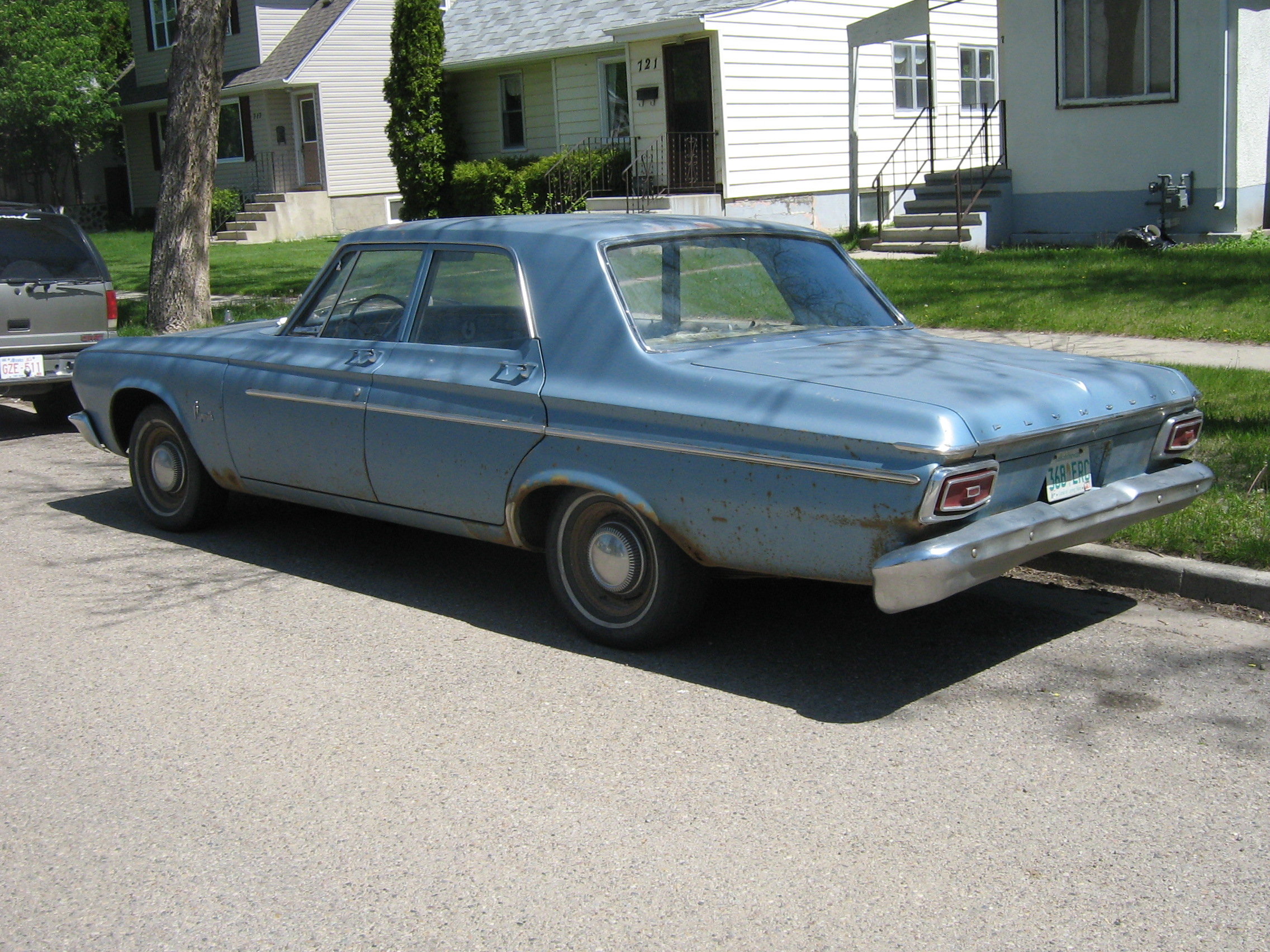 1964 Plymouth Savoy